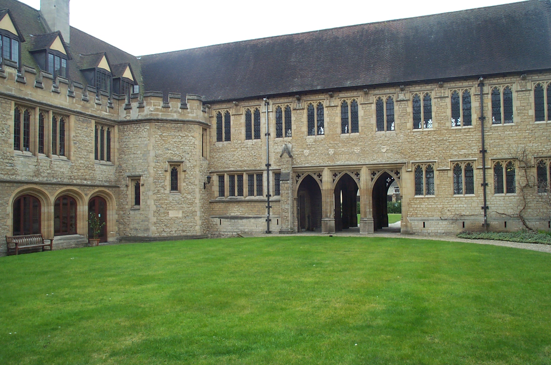 St Cross College, Oxford